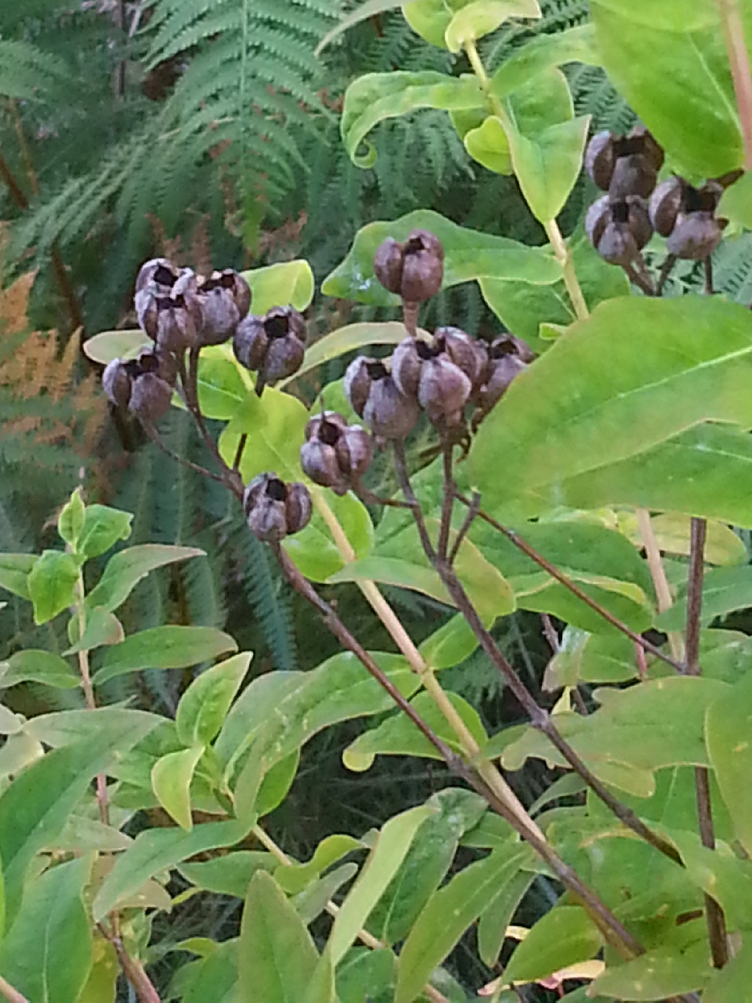 Hypericum hircinumFruits.Salina (Eolian Islands).